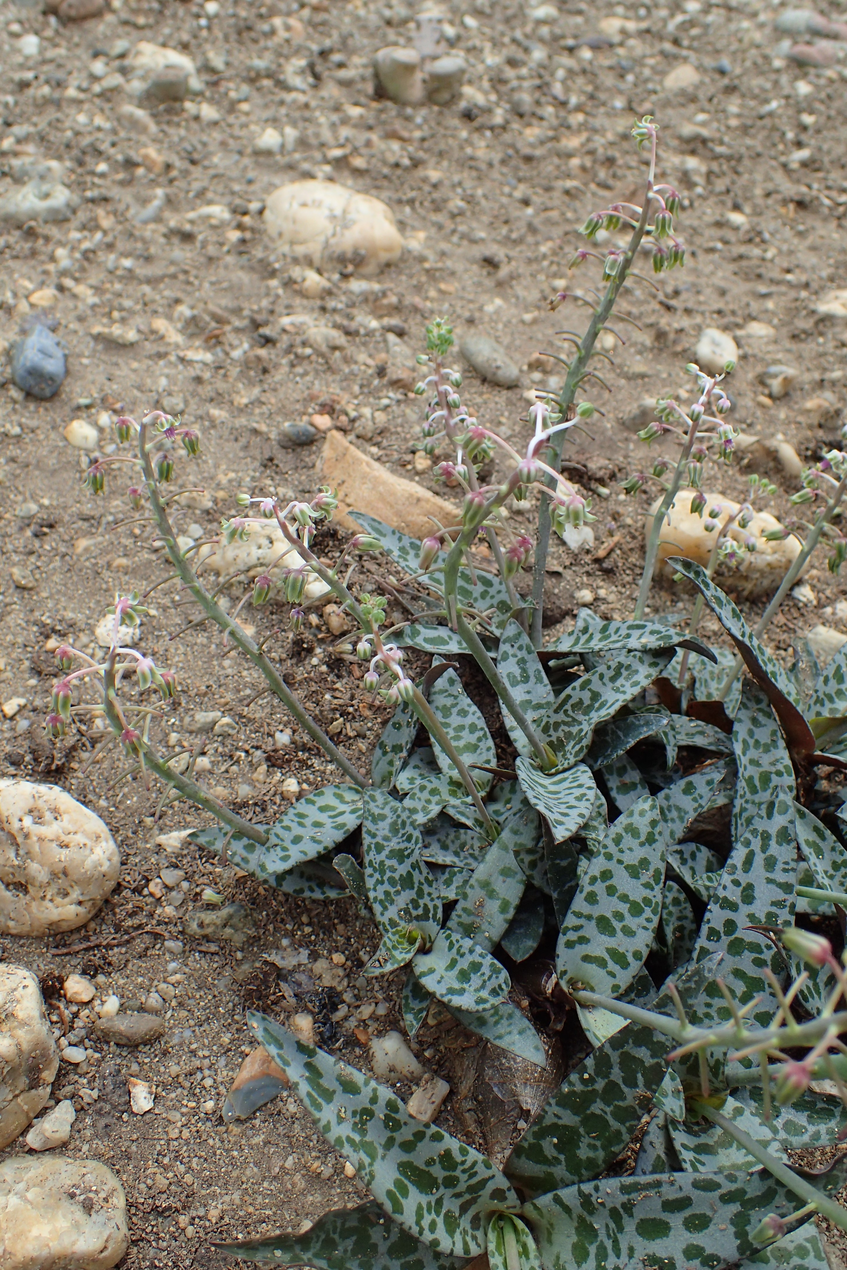 Ledebouria socialis in Botanical Garden of the University of Debrecen